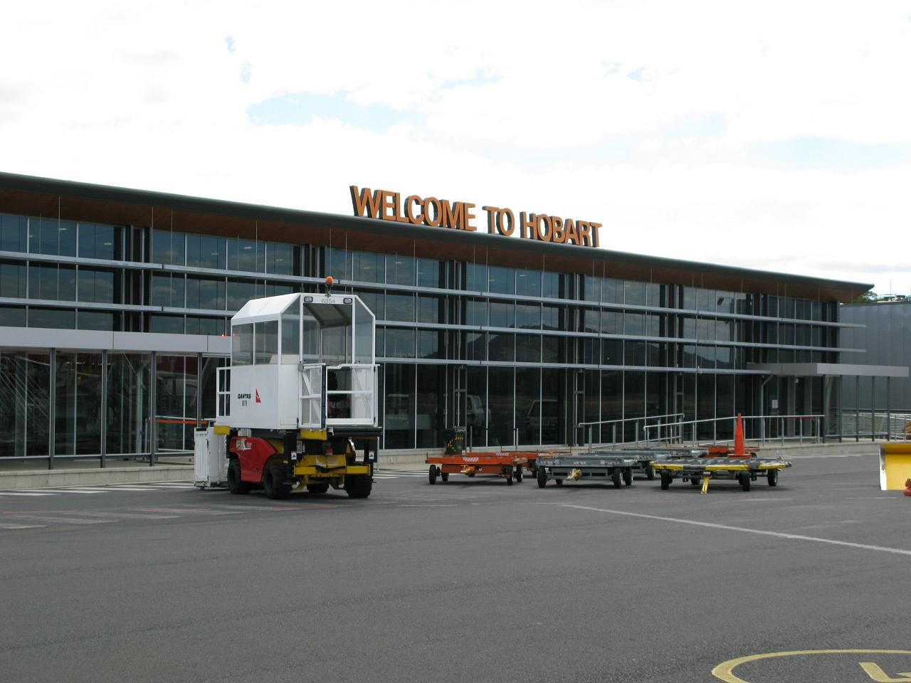 Hobart Airport